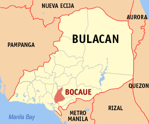 Map of Bulacan showing the location of Bocaue